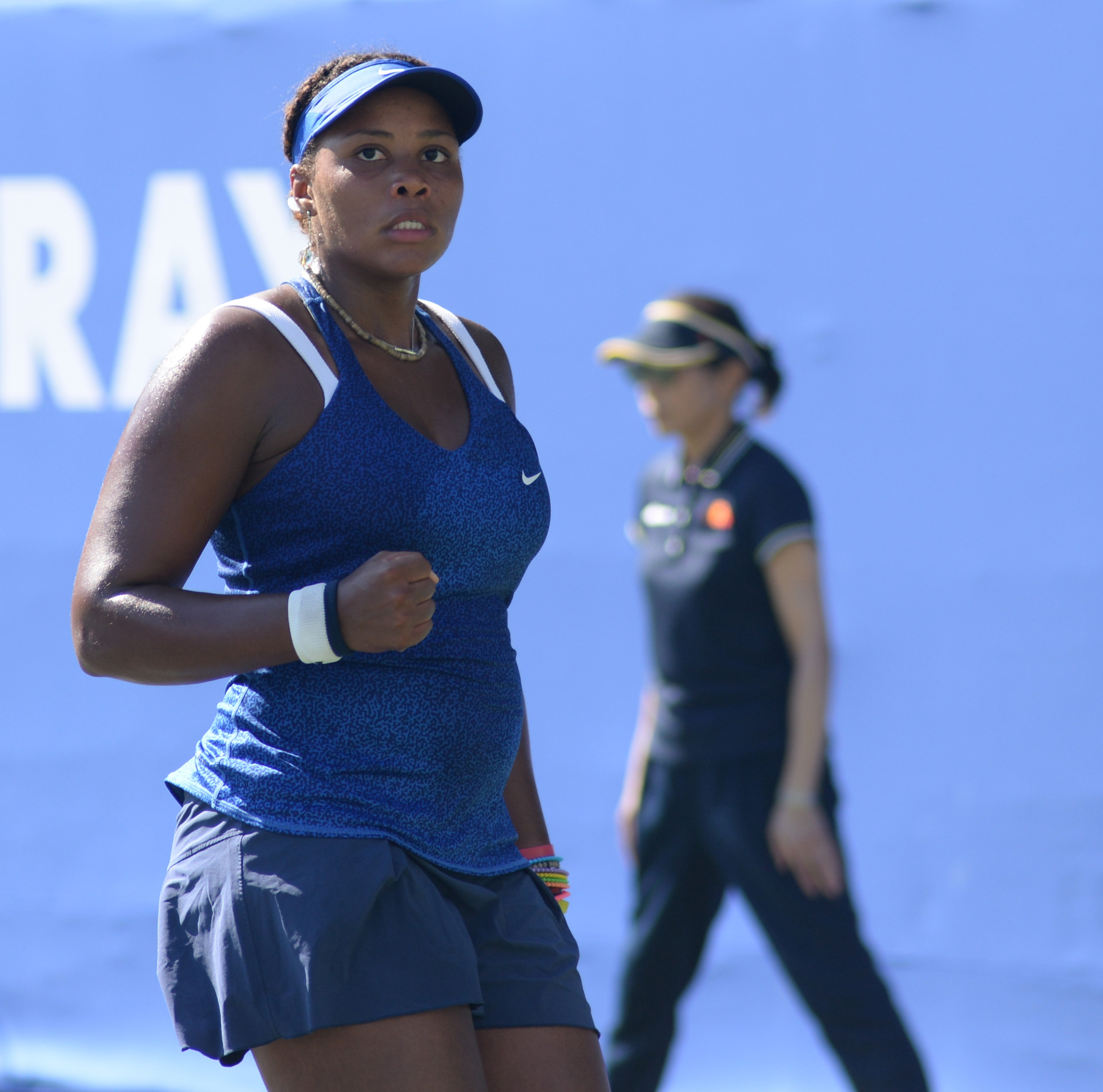 Taylor Townsend at the 2014 Toray Pan Pacific Open